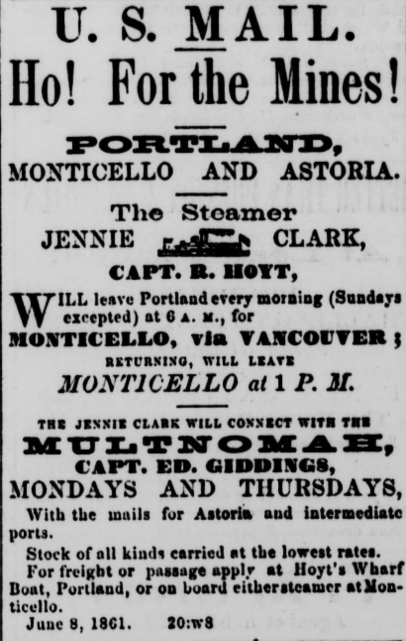 Advertisement for the steamers Jennie Clark and Multnomah, published June 8, 1861 (page 3) in the Washington Standard, of Olympia, W.T.